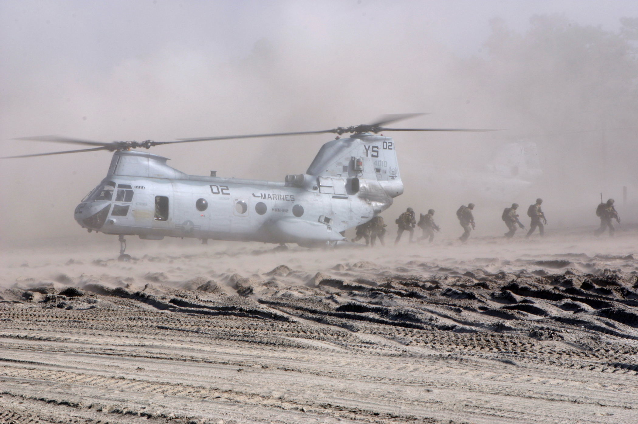 One of several CH-46E "Sea Knight" helicopters from HMM-162 (Rein.) touch down at a landing zone to drop off Marines from BLT 2/8 during the first raid. Photo by: Cpl. Eric R. Martin